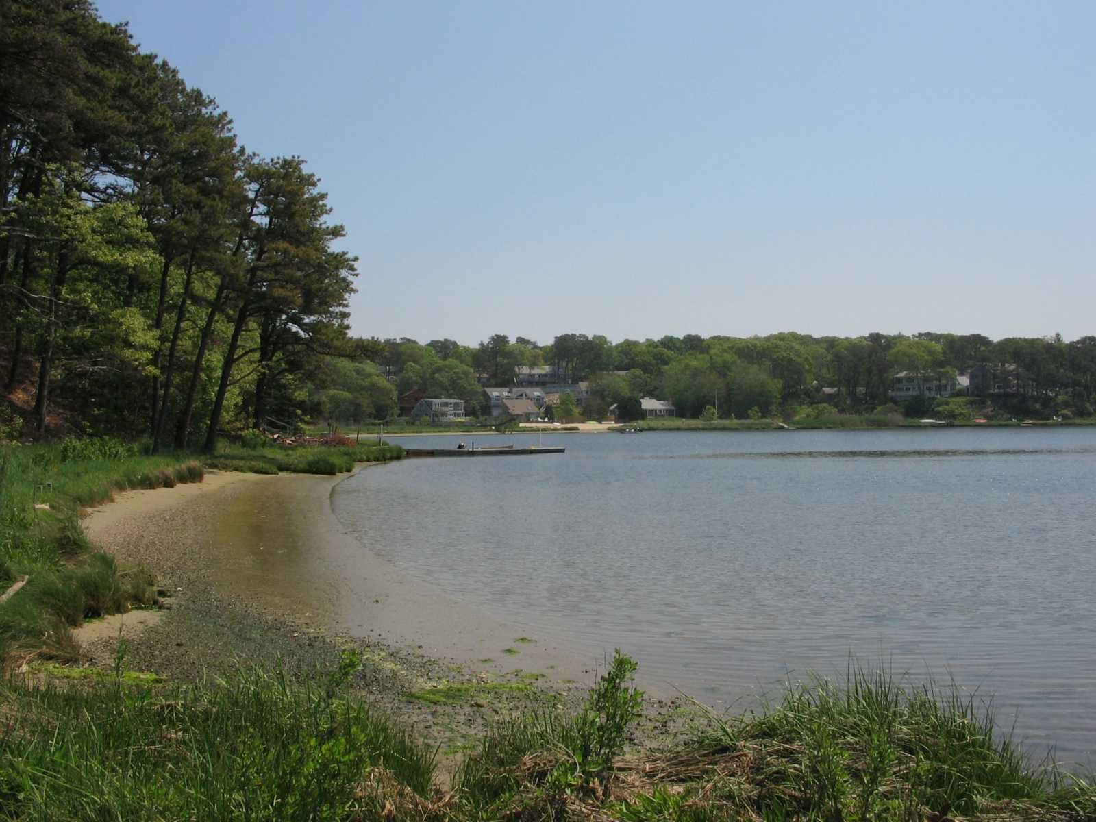 Snapshot of Follins Pond, taken in Yarmouthport, Massachusetts on May 30, 2006. Uploaded by author, who releases all rights.